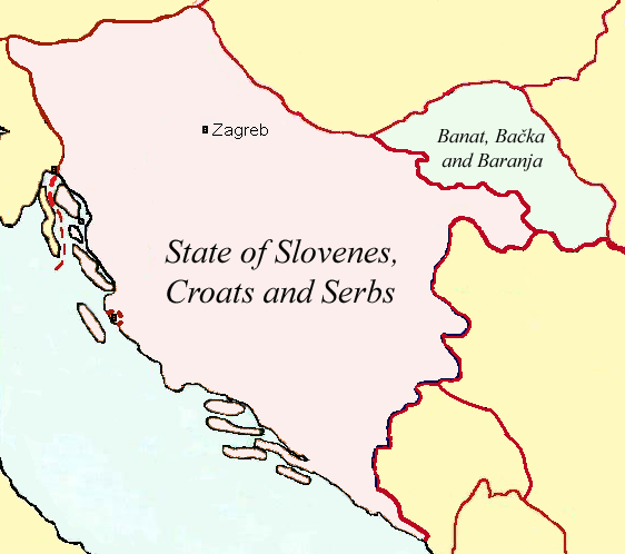 Location of the State of Slovenes, Croats and Serbs.